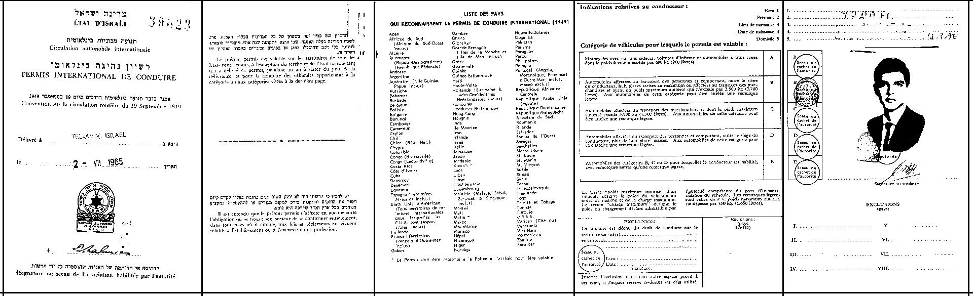 International Driver's License, issued in Israel